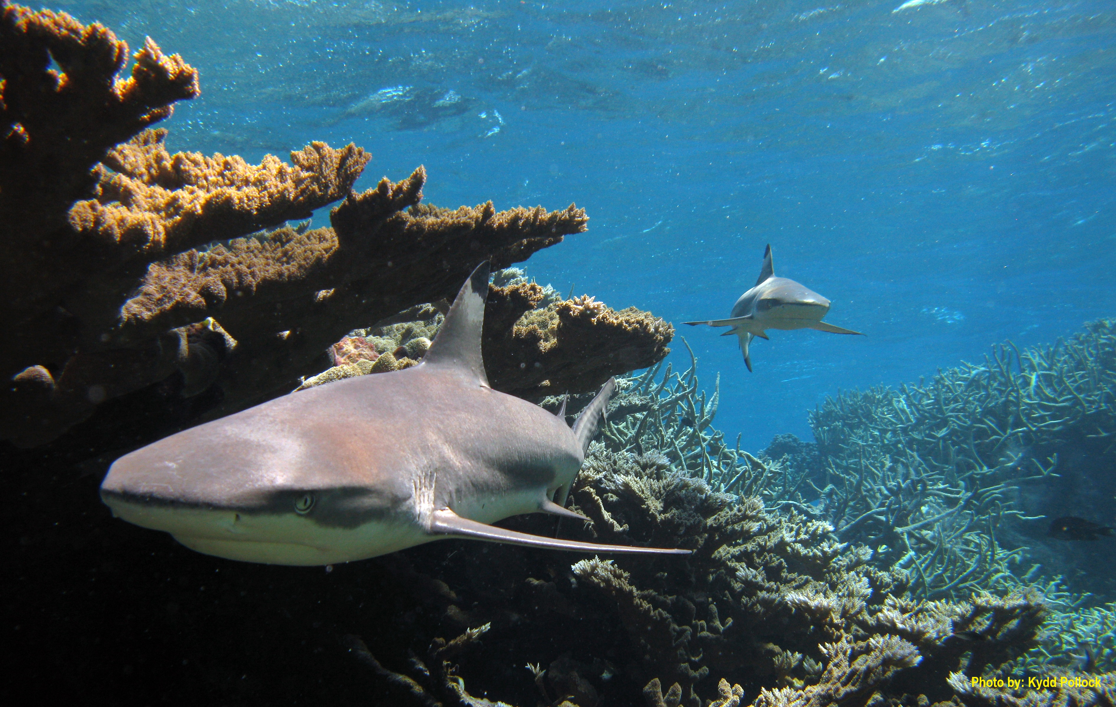 Blacktips cruising at Kingman Reef NWR. Photo credit- Kydd Pollock